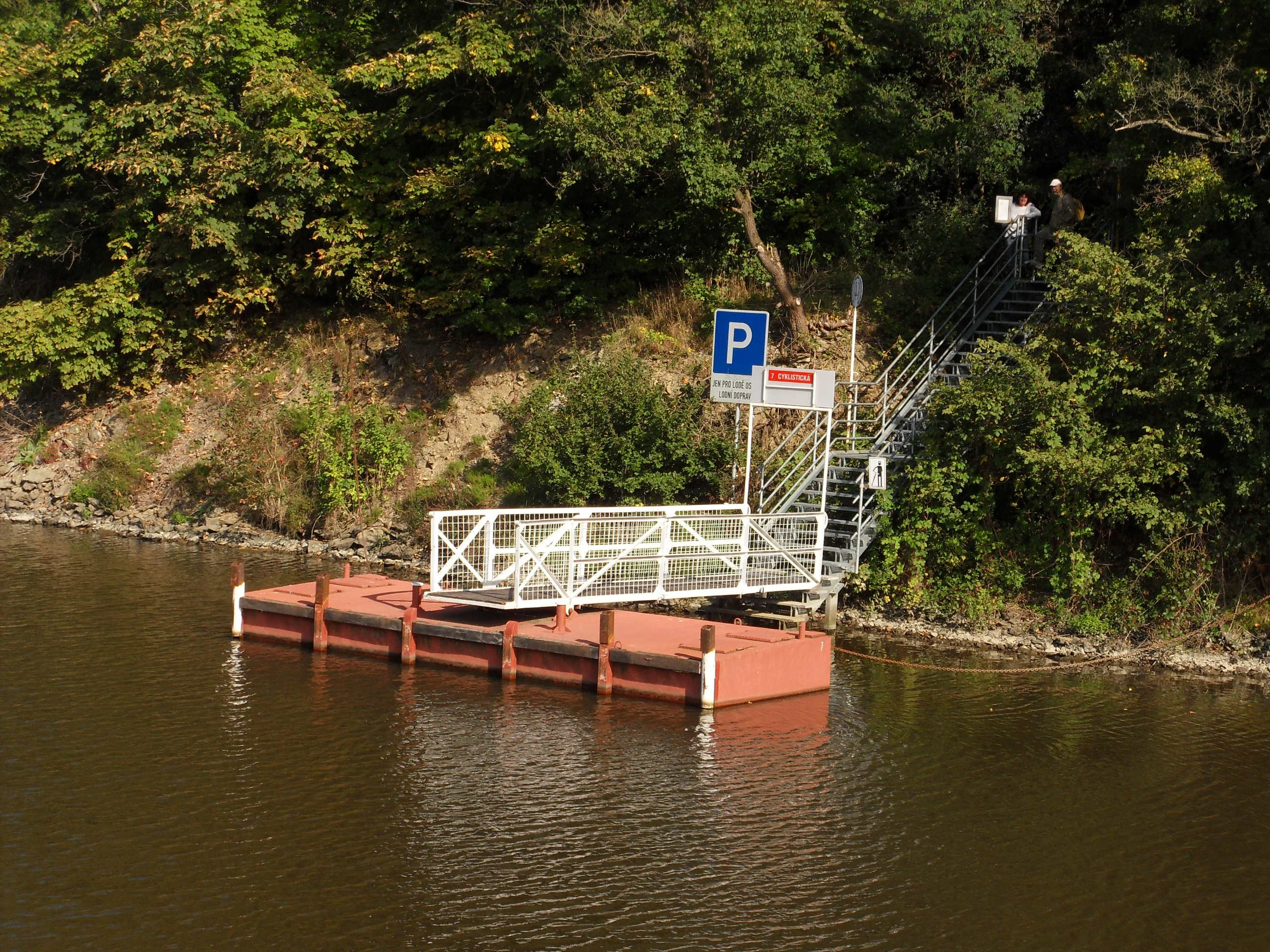 Cyklistická stop, Brno Reservoir, Brno, Czech Republic